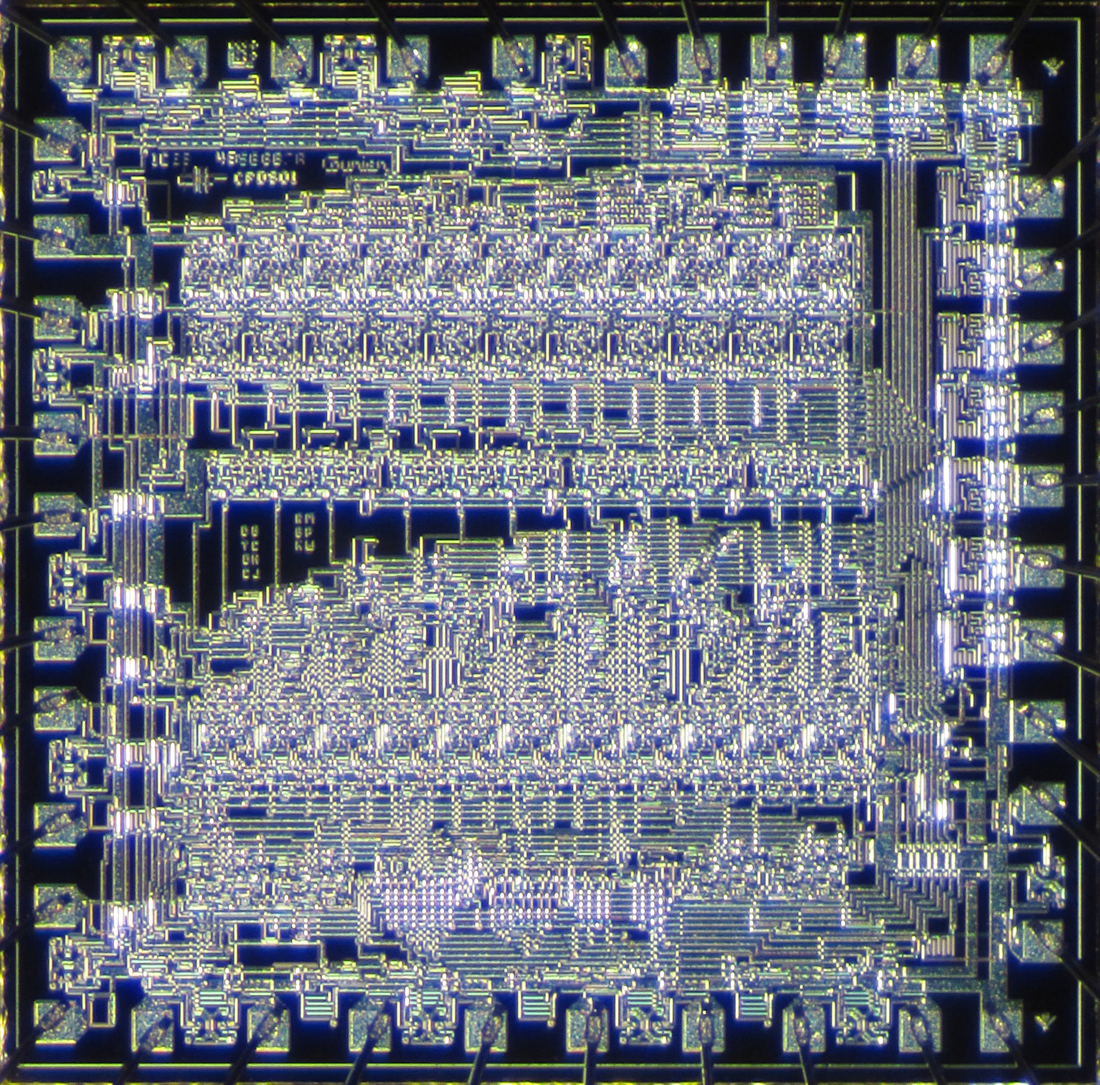 Die shot of Synertek 2650-P-02 that was hand remarked as 2650-P3.